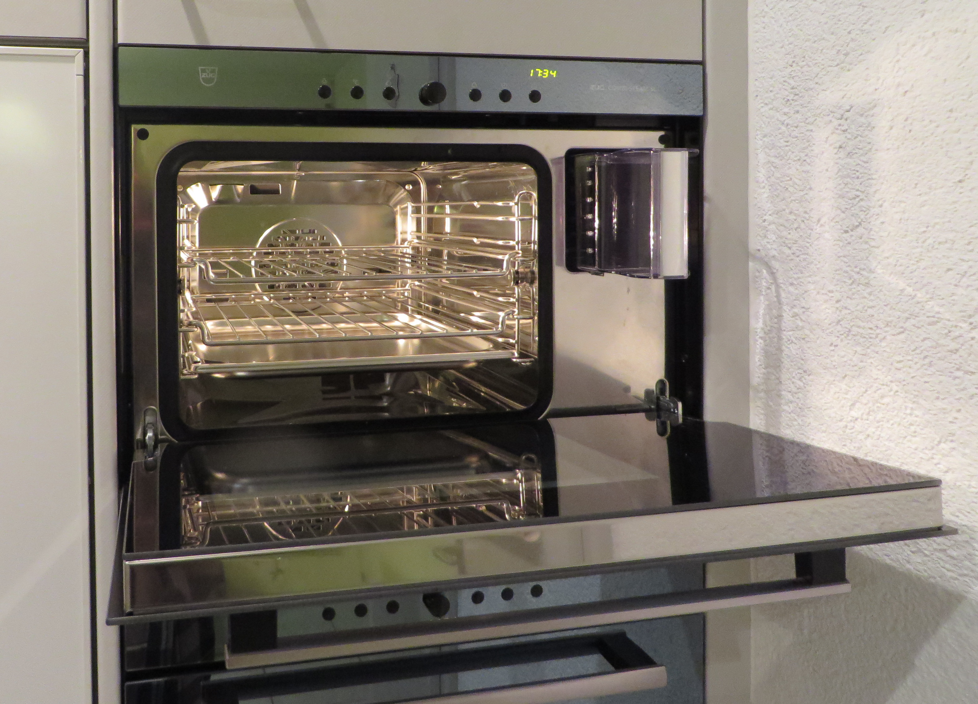 combined kitchen oven + steamer, to the right: water plug-in